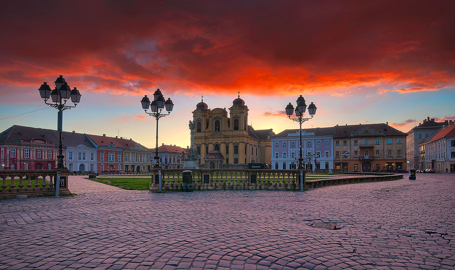 Timișoara - Union Square at sunrise